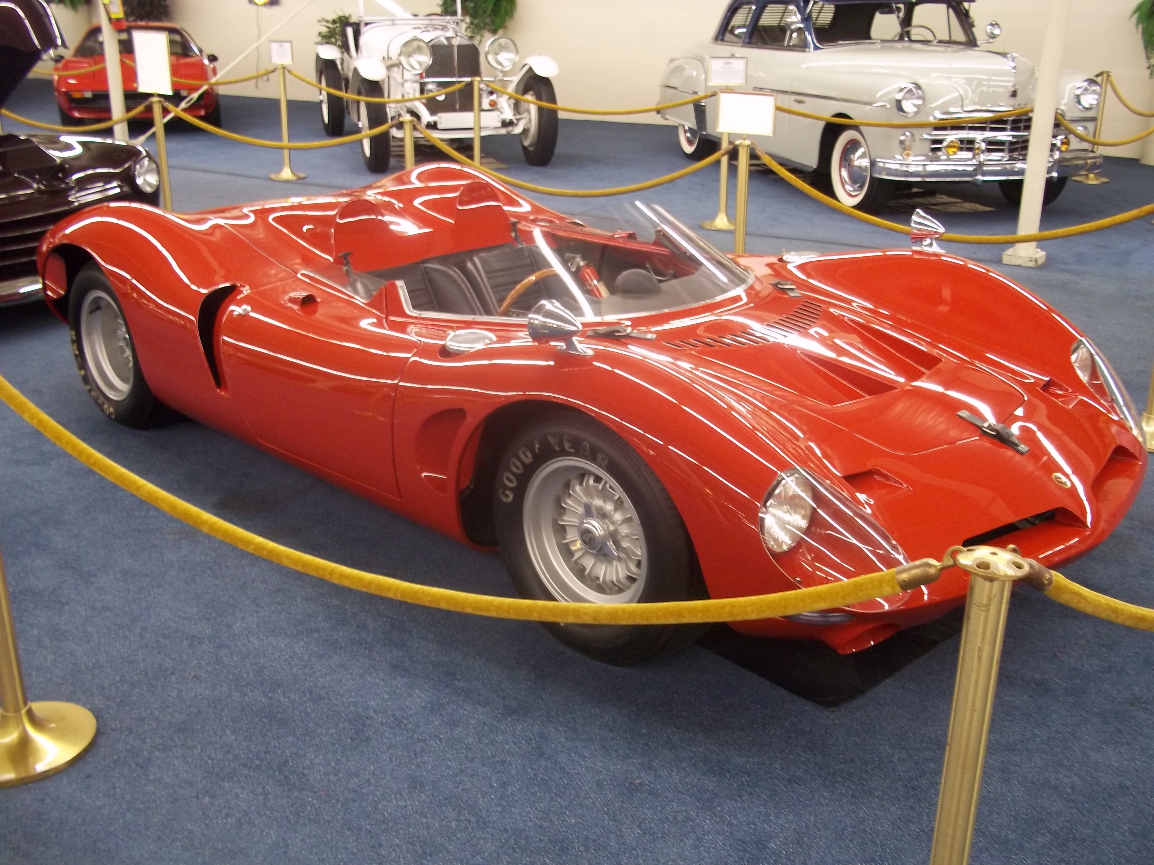 1966 Bizzarrini P538 Spyder Prototype on display at the Imperial Palace Auto Collection in Las Vegas, Nevada. Alfa Romeo, Ferrari, and Bizzarrini concept. General Motors running gear if am not mistaken.